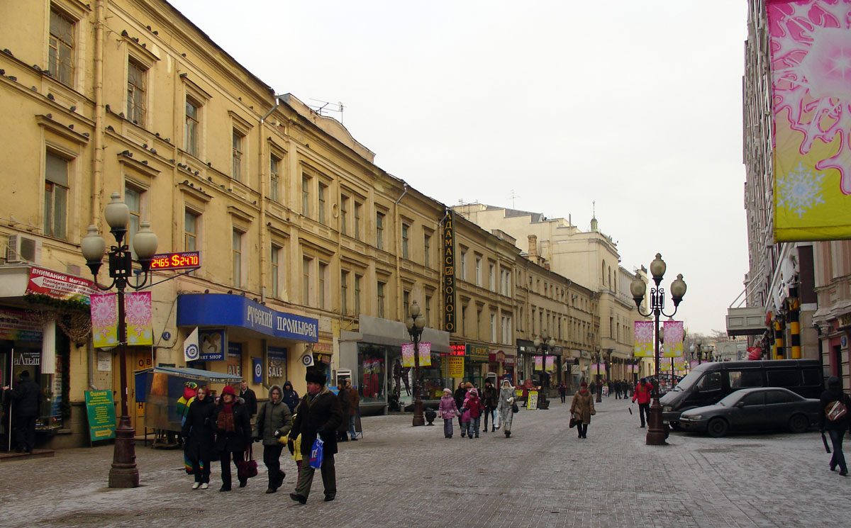 Arbat Street, Moscow. Unusually few people - between New Year and (orthodox) Christmas the city looks deserted.